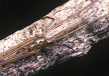 male Tetragnatha iriomotensis from Okinawa.